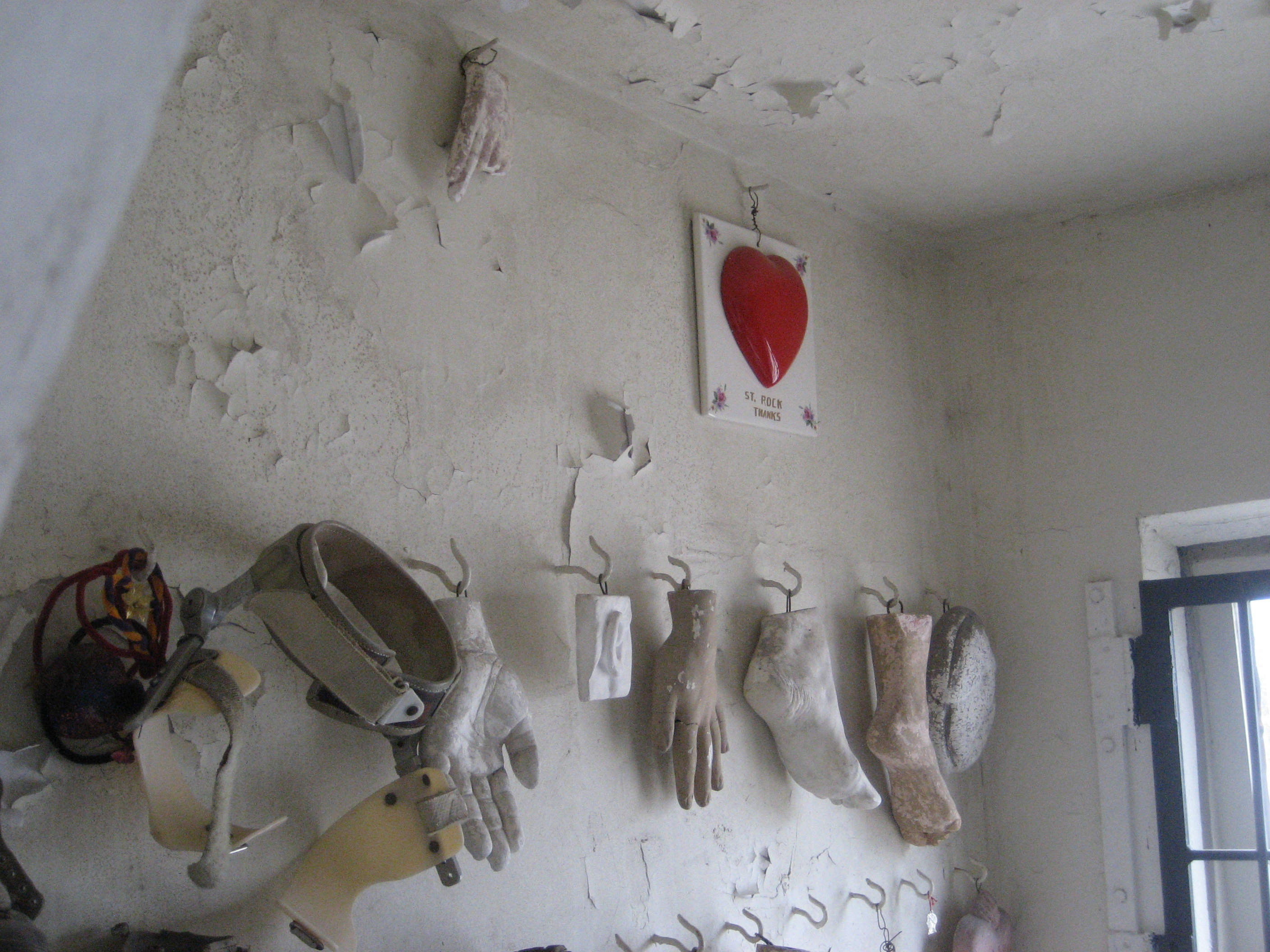 New Orleans: Chapel in St. Roch Cemetery. Offerings of thanks for miracles by St. Roch, including crutches and effigies of body parts.